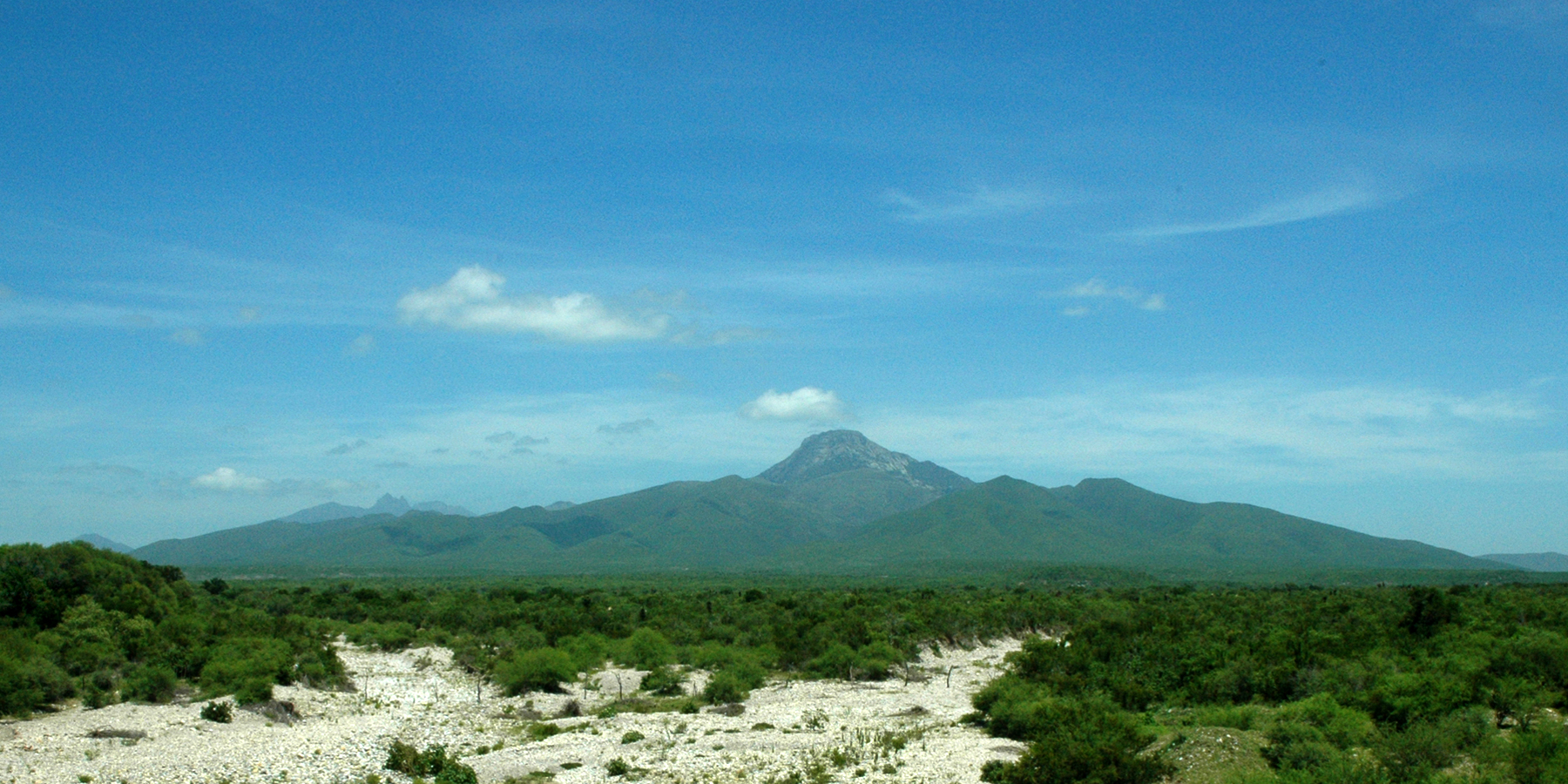 Sierra San Carlos seen from the south, looking northwest from Highway 89, Municipality of San Carlos, Tamaulipas, Mexico (24.4531°N, 98.8931°W, 338 m. elev.). Photographed on 14 July 2007 by William L. Farr.